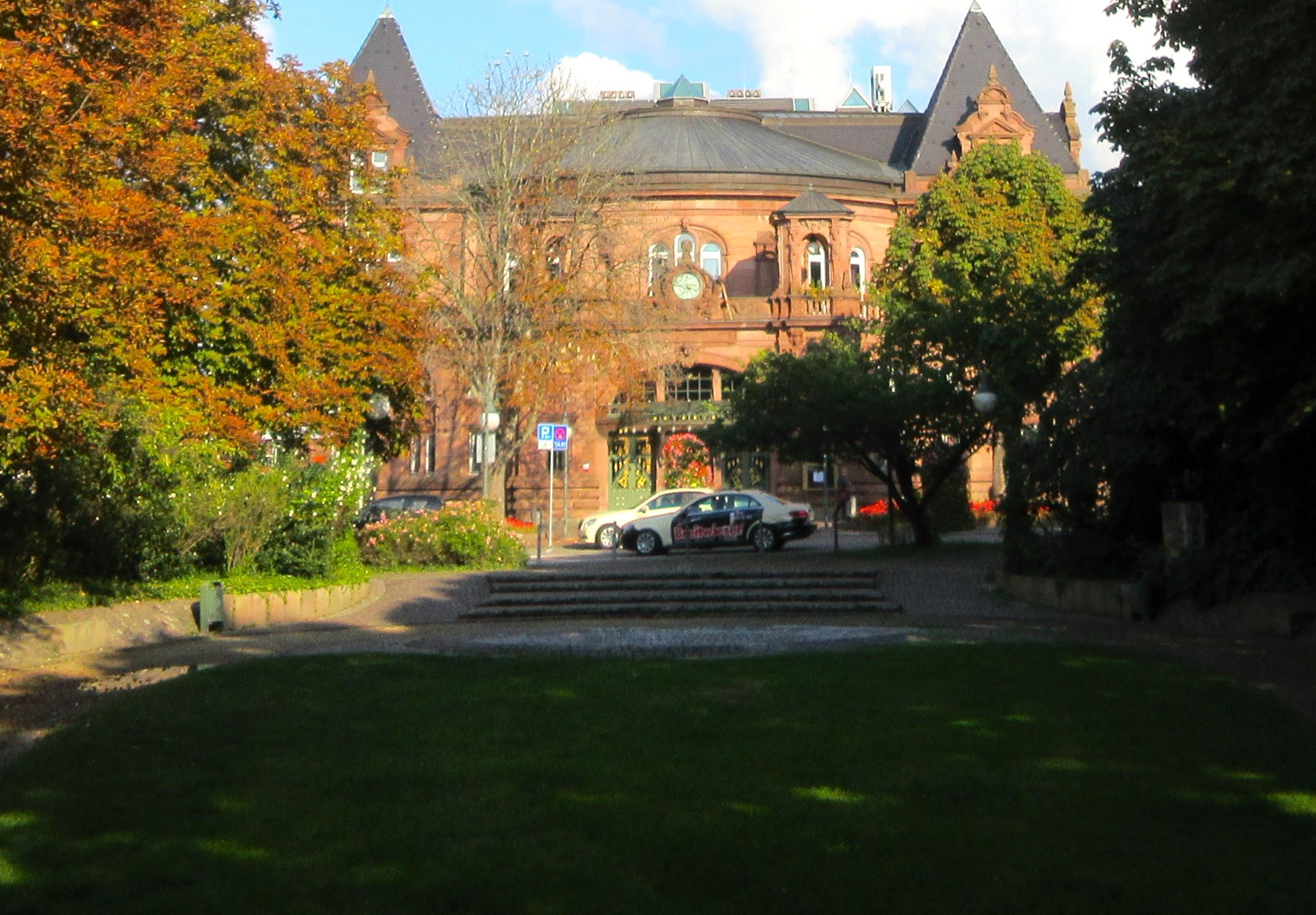 Heidelberg municipal hall